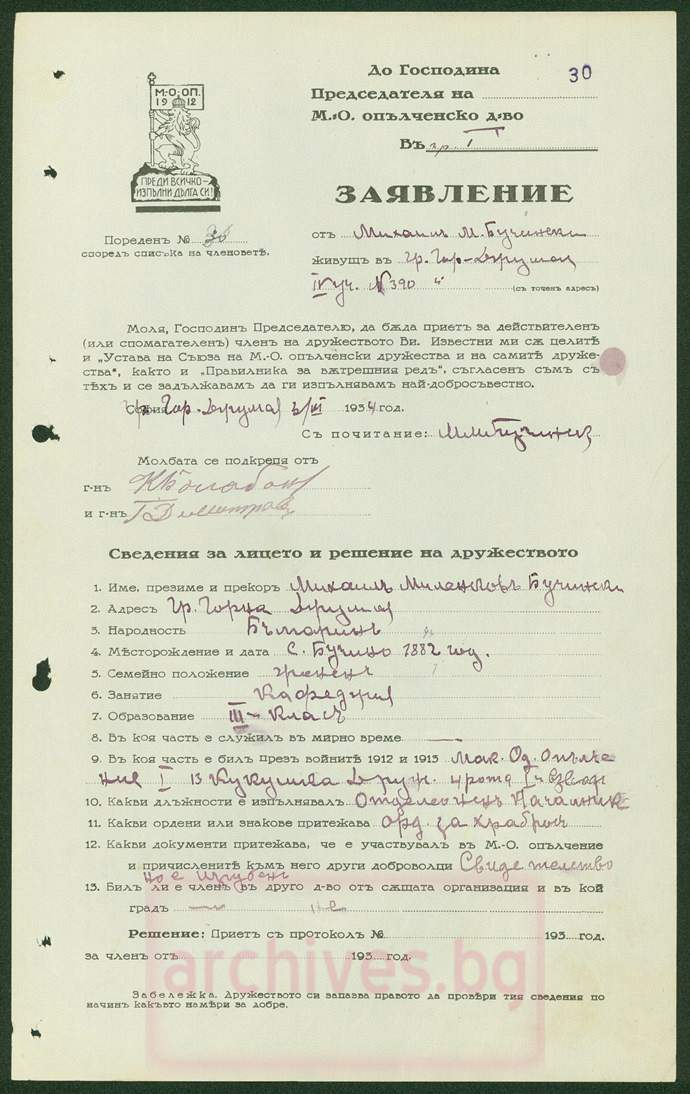 Mihail_Buchinski's Document